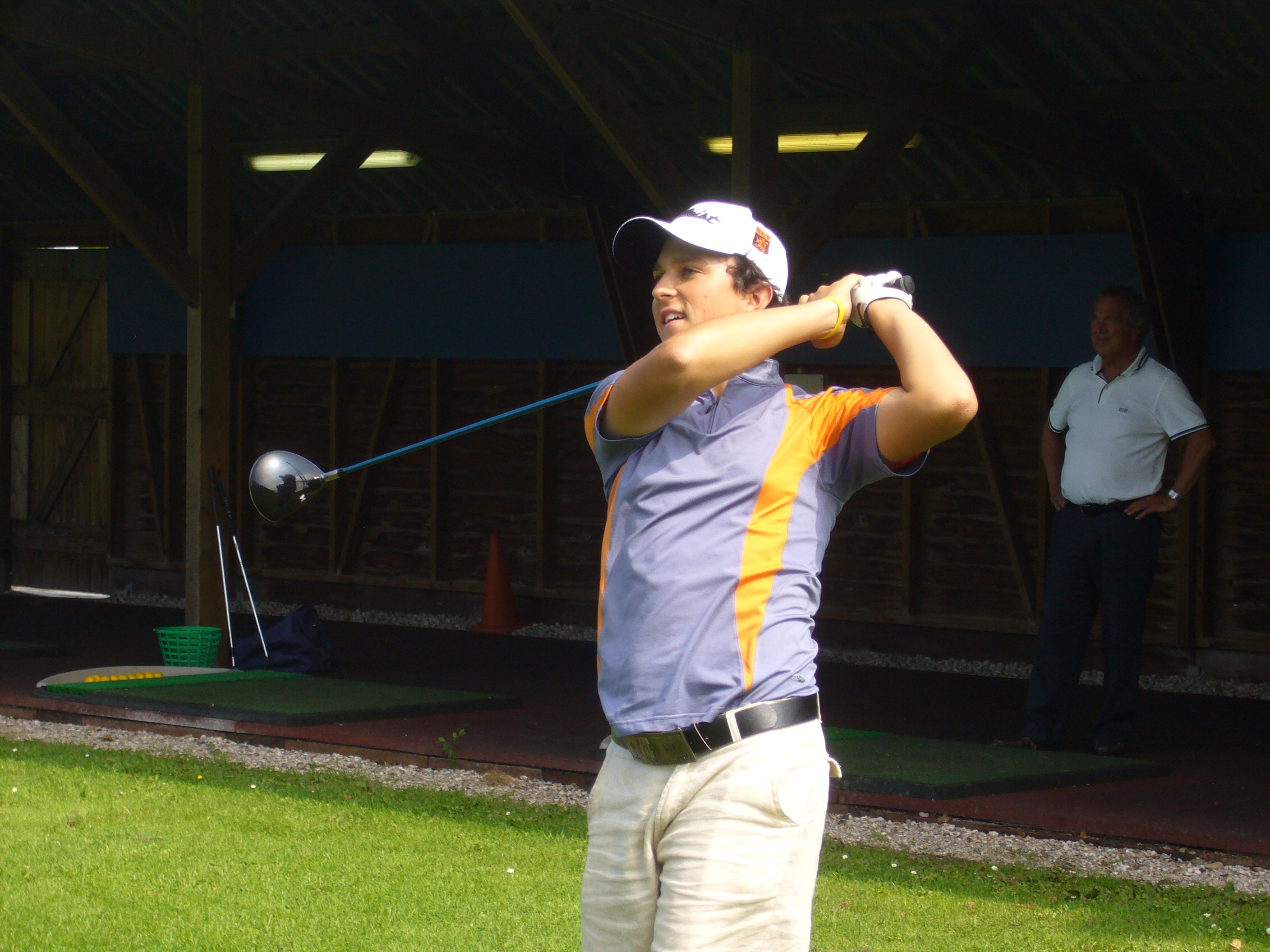 Dylan Boshart, Dutch golf amateur